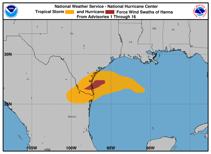 Tropical storm force (orange) and hurricane force (red) winds along the path of Hurricane Hanna in July 2020.